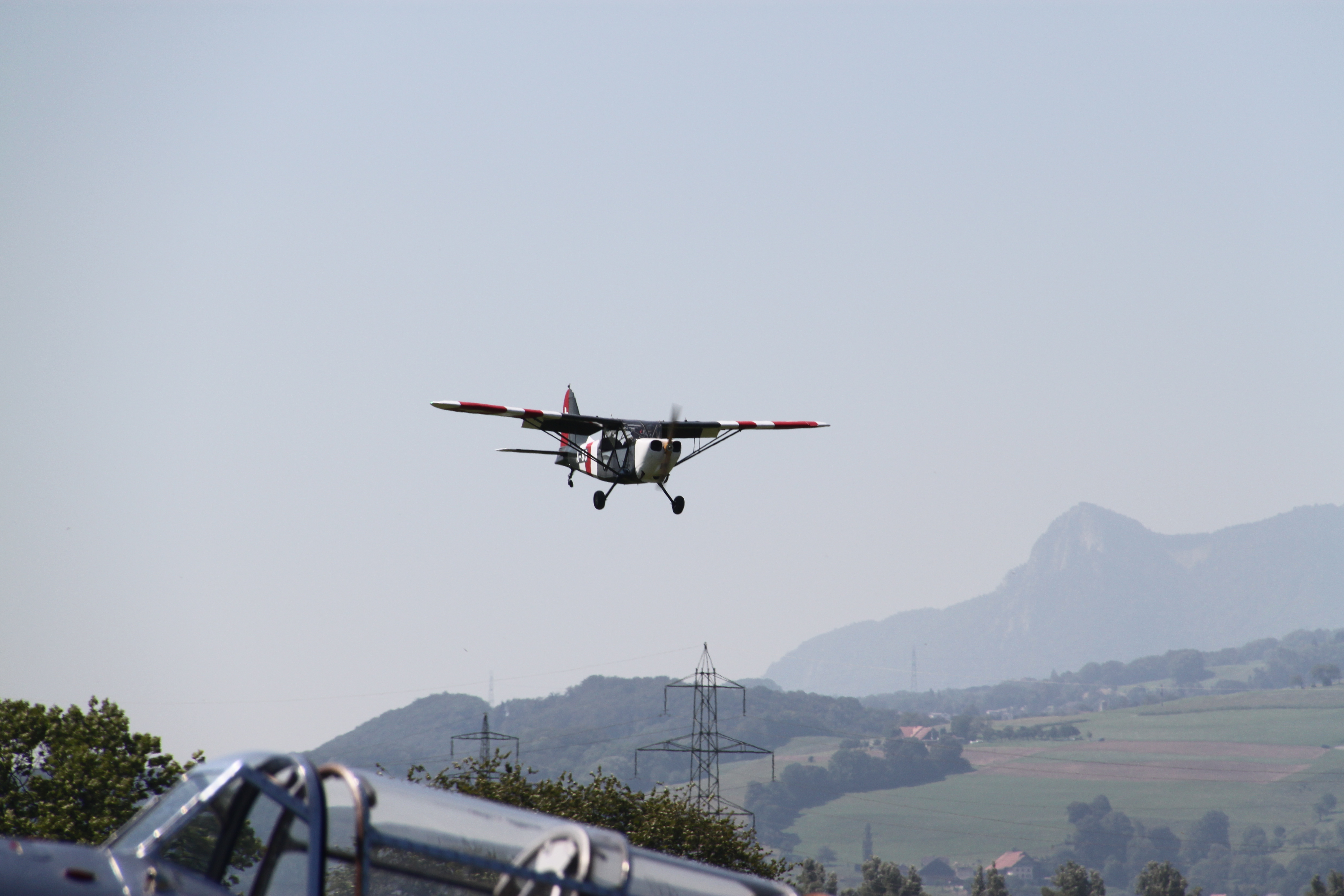 Oldtimerflugtage Kestenholz, Switzerland 23.08.2009